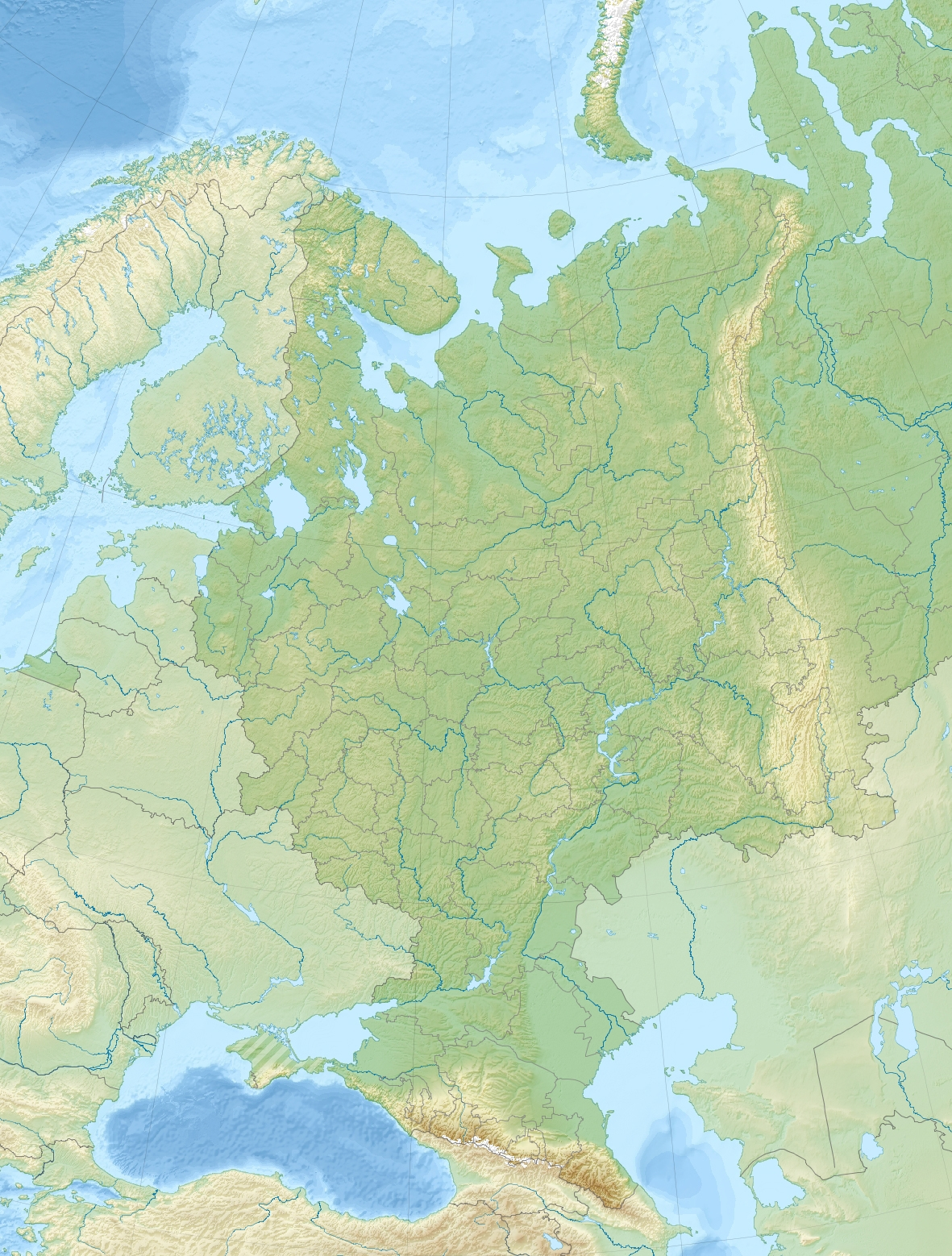 Relief location map of European Russia (with Crimea). Projection: Lambert azimuthal equal-area projection. Area of interest: N: 75.0° N S: 40.0° N W: 25.0° E E: 60.0° E Projection center: NS: 57.5° N WE: 42.5° E GMT projection: -JA42.5/57.5/20c GMT region: -R25.450860698632475/38.37411418933942/86.79037939442836/70.79910933370674r GMT region for grdcut: -R-2.0/38.0/87.0/76.0r Relief: SRTM30plus. Made with Natural Earth. Free vector and raster map data @ .